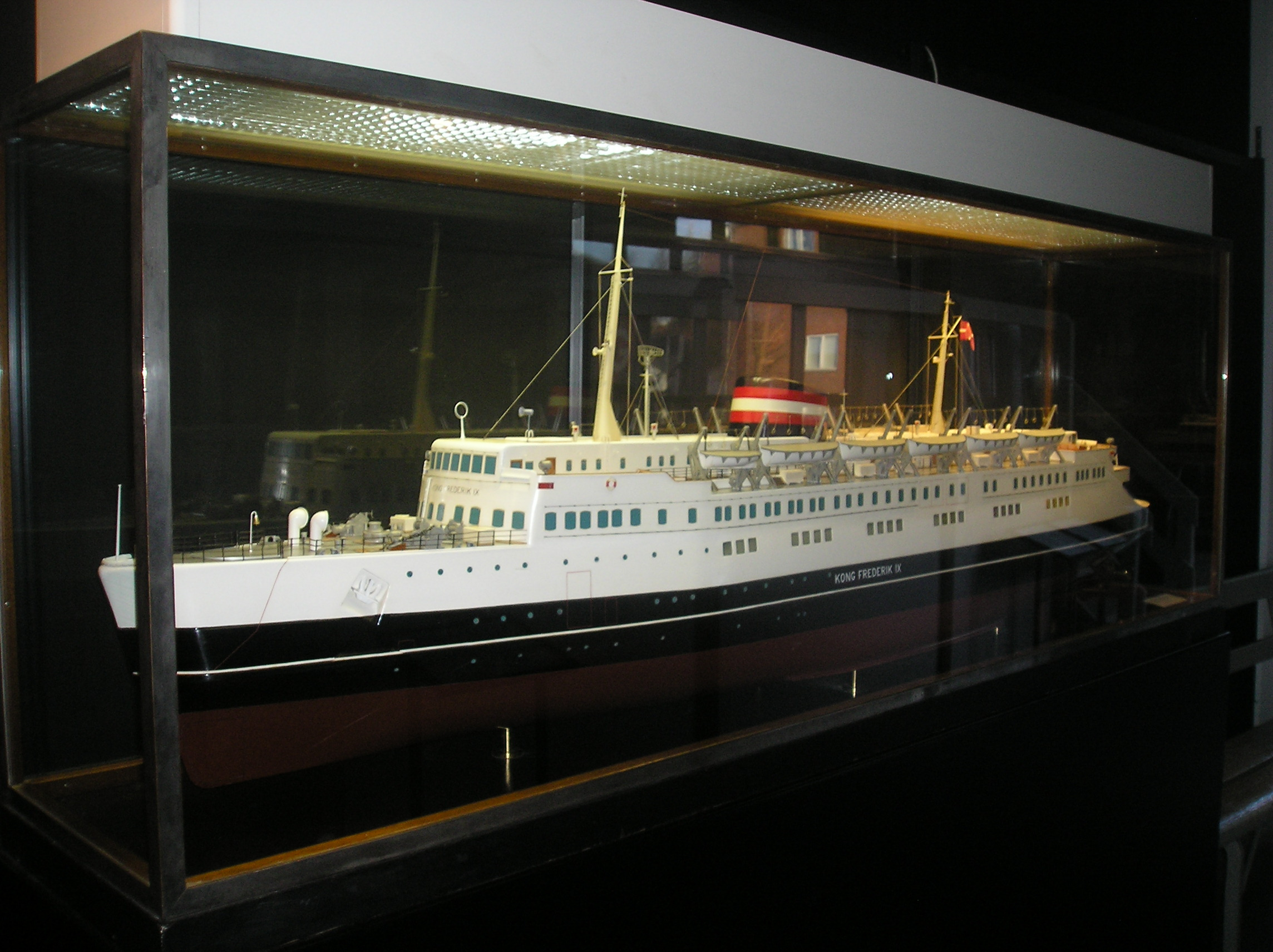 Model of the Danish ferry M/F Kong Frederik IX from 1954 in Danmarks Jernbanemuseum.